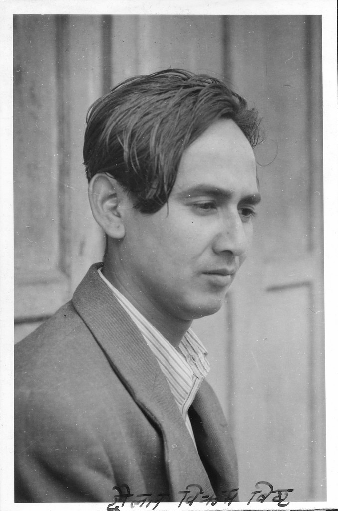 Daulat Bikram Bista (1925-2002), Poet and writer of Nepali language